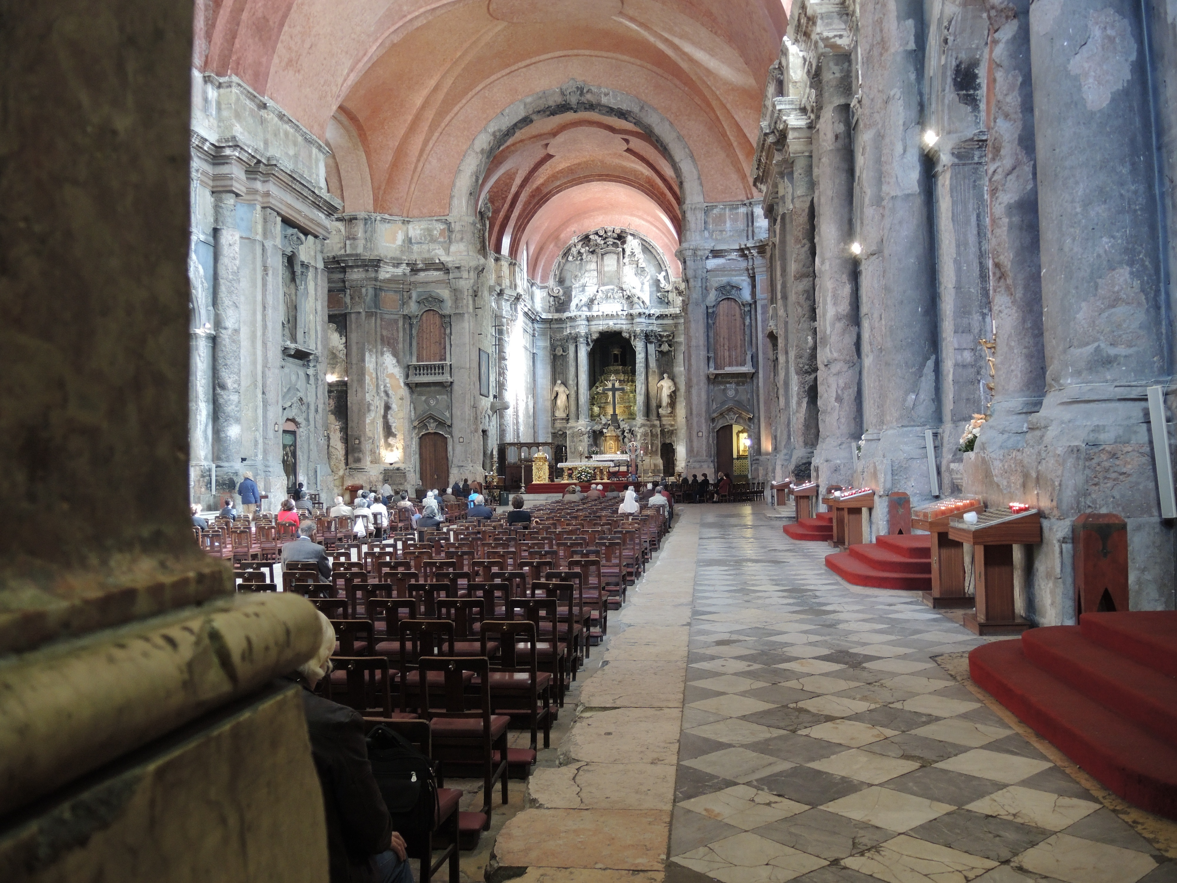 Igreja de São Domingos (Lisbon) interior